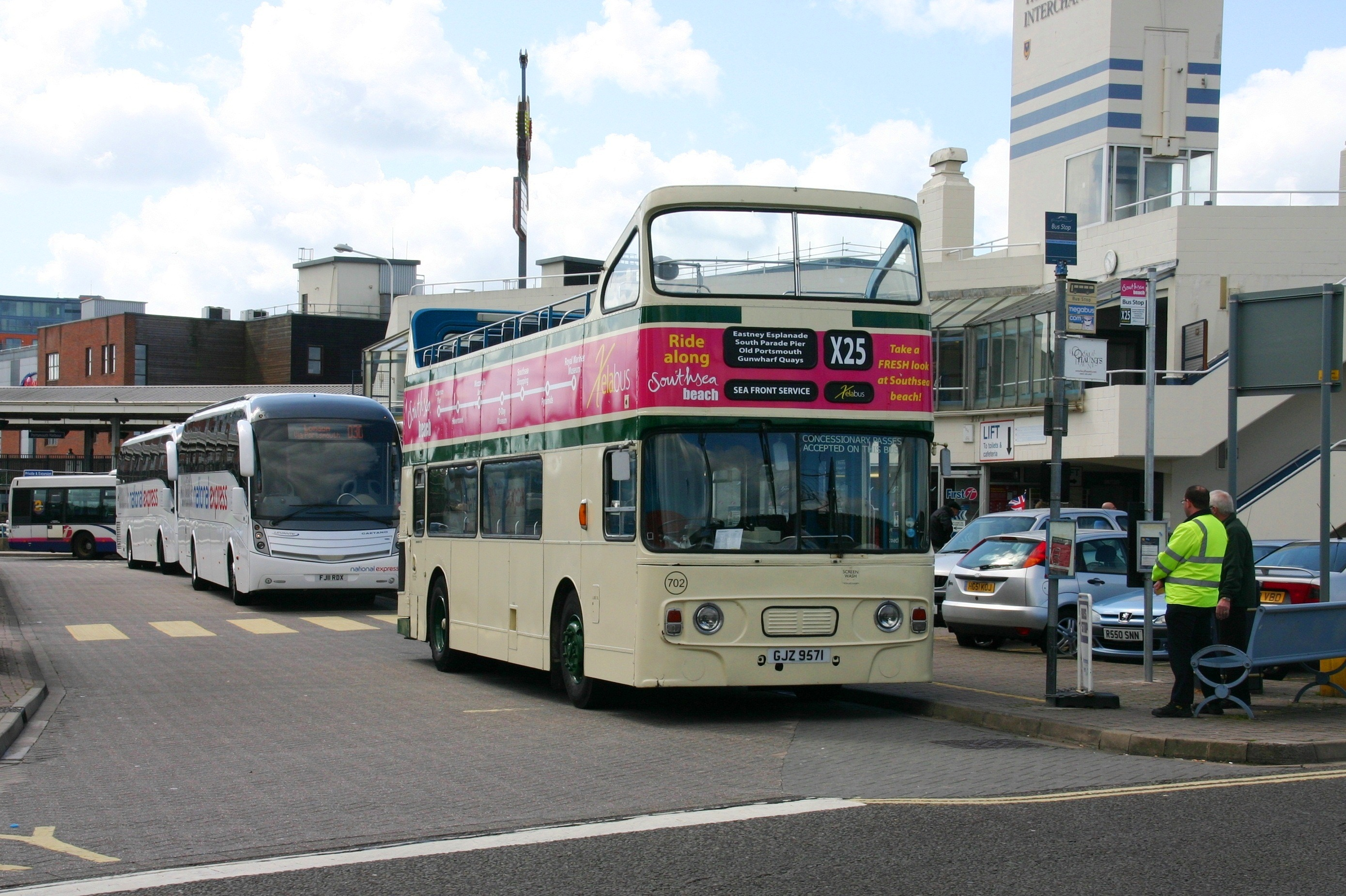 Xelabus 702 (GJZ 9571), an Alexander-bodied open-top Leyland Atlantean, in use on route X25 at The Hard Interchange in Portsmouth Harbour during June 2012. It was new to Lothian Buses as BFS 14L and was converted to open-top form for use on tourist services in Oxford, later working in Paignton with Devonian Motor Services. It carries route branding for the X25, which was introduced in May 2012 and links the harbour to Eastney.